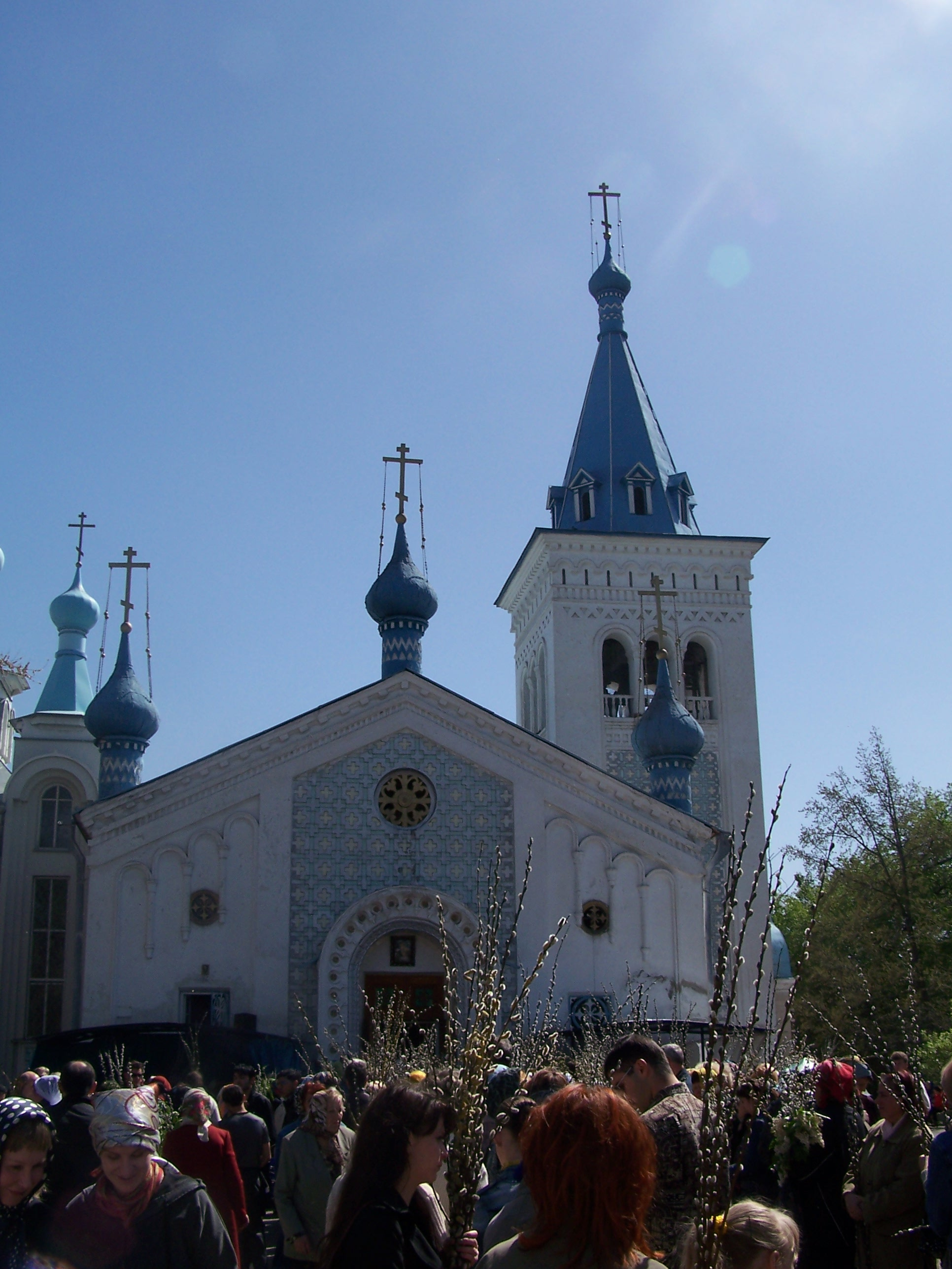 Palm Sunday